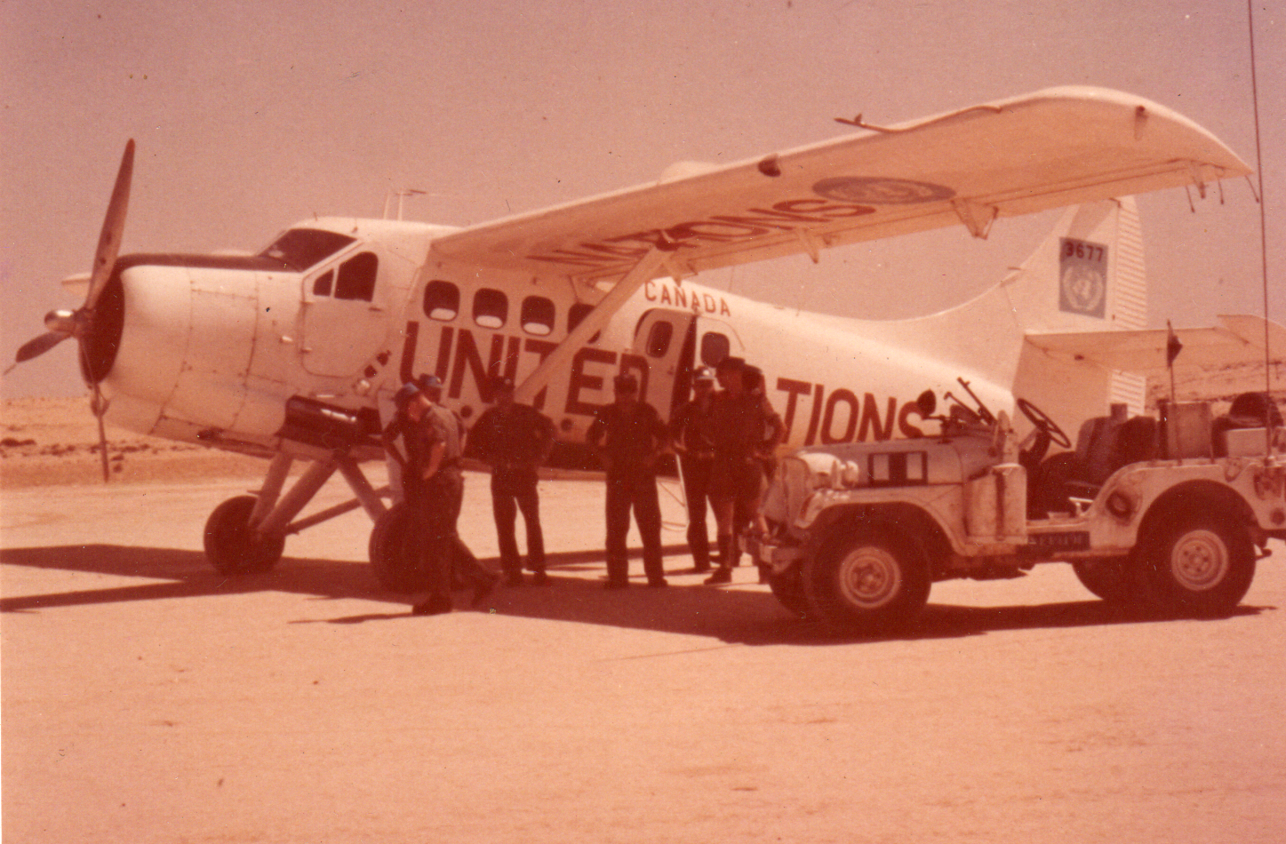 UNEF Otter flown by Lynn Garrison. Sinai, Egypt